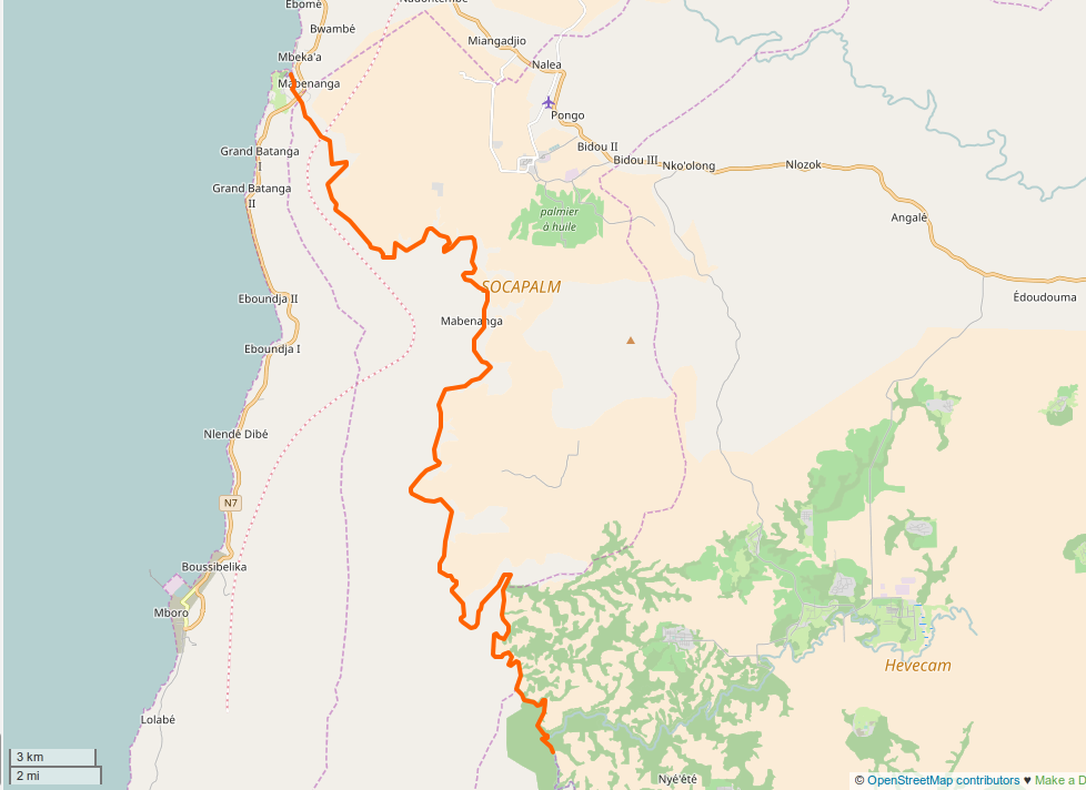 River Lobé in Cameroon, with OSM. This map may be incomplete, and may contain errors. Don't rely solely on it for navigation.